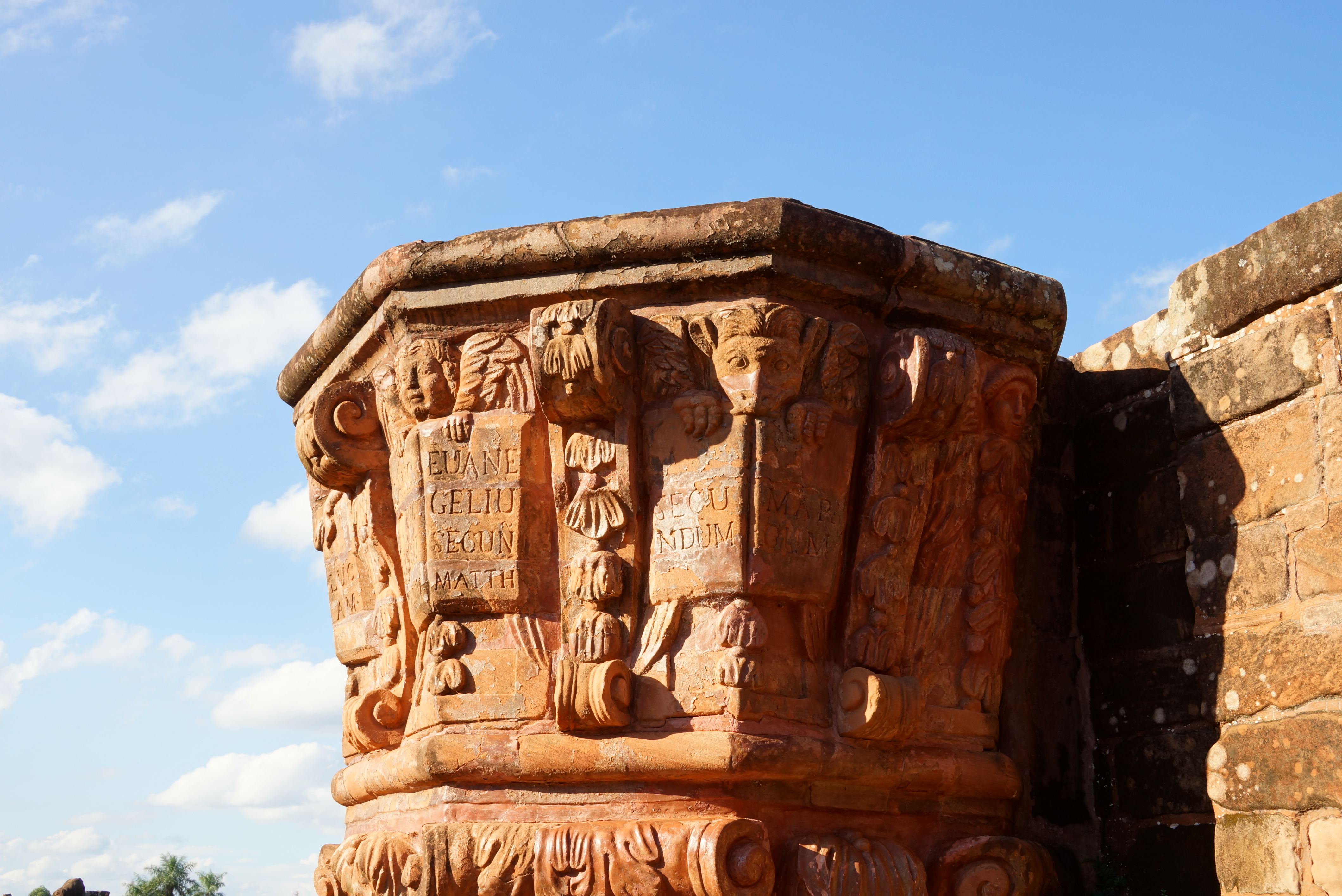 Detail of the pulpit of the church of the Jesuit Reduction of Trinidad, Southern Paraguay.